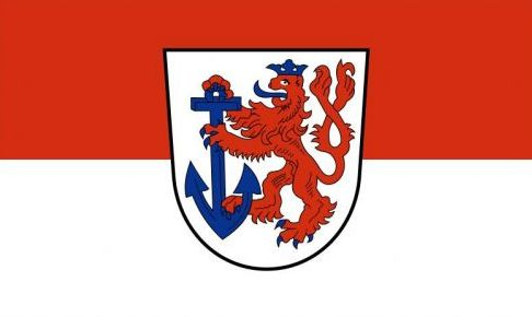 Flag of the city of Düsseldorf